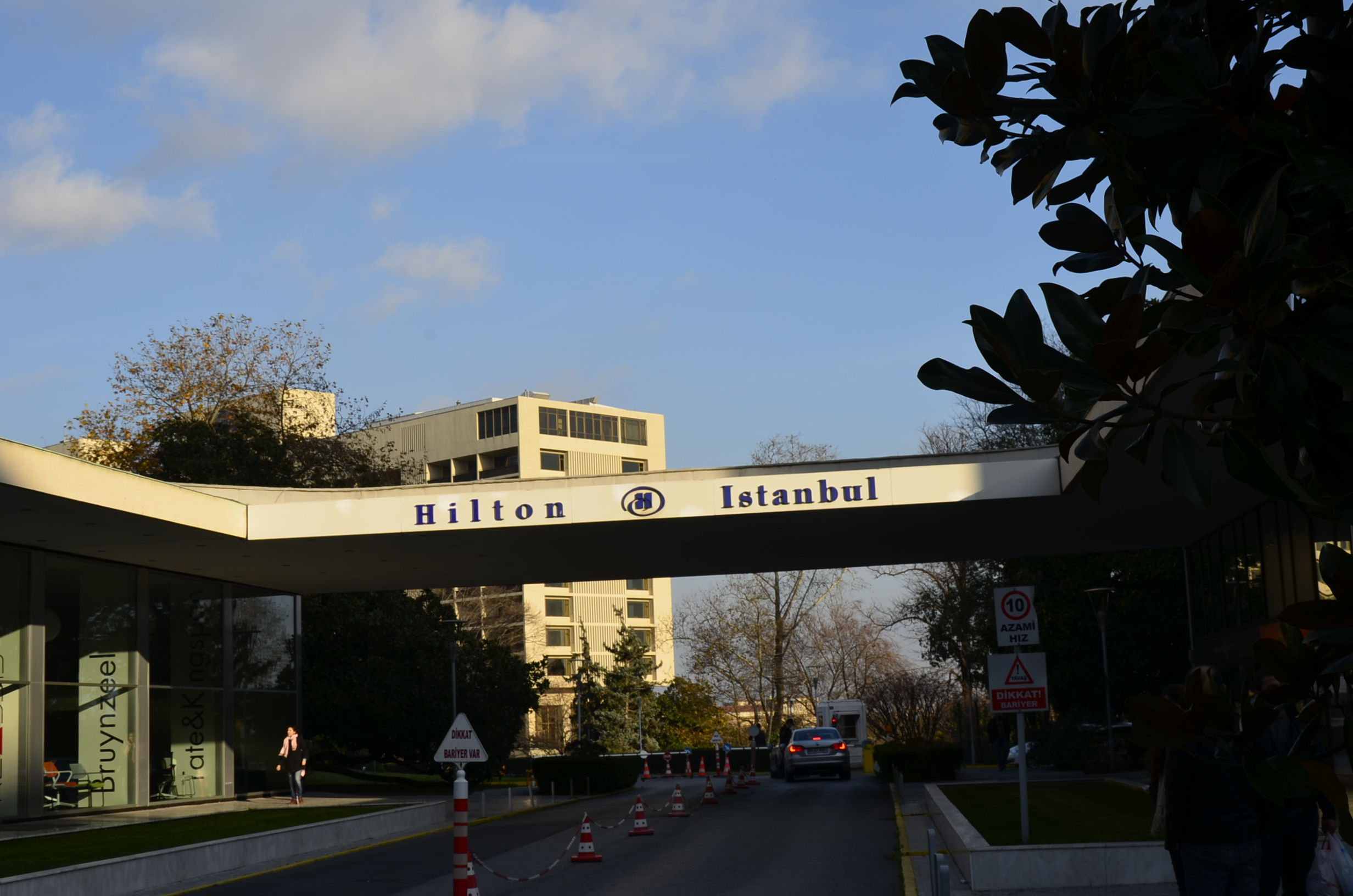 Entrance of Istanbul Hilton Hotel from Cumhuriyet Avenue